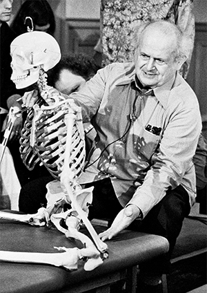 This photo depicts Moshe Feldenkrais, creator of the Feldenkrais Method, illustrating the function of the human skeleton in sitting.